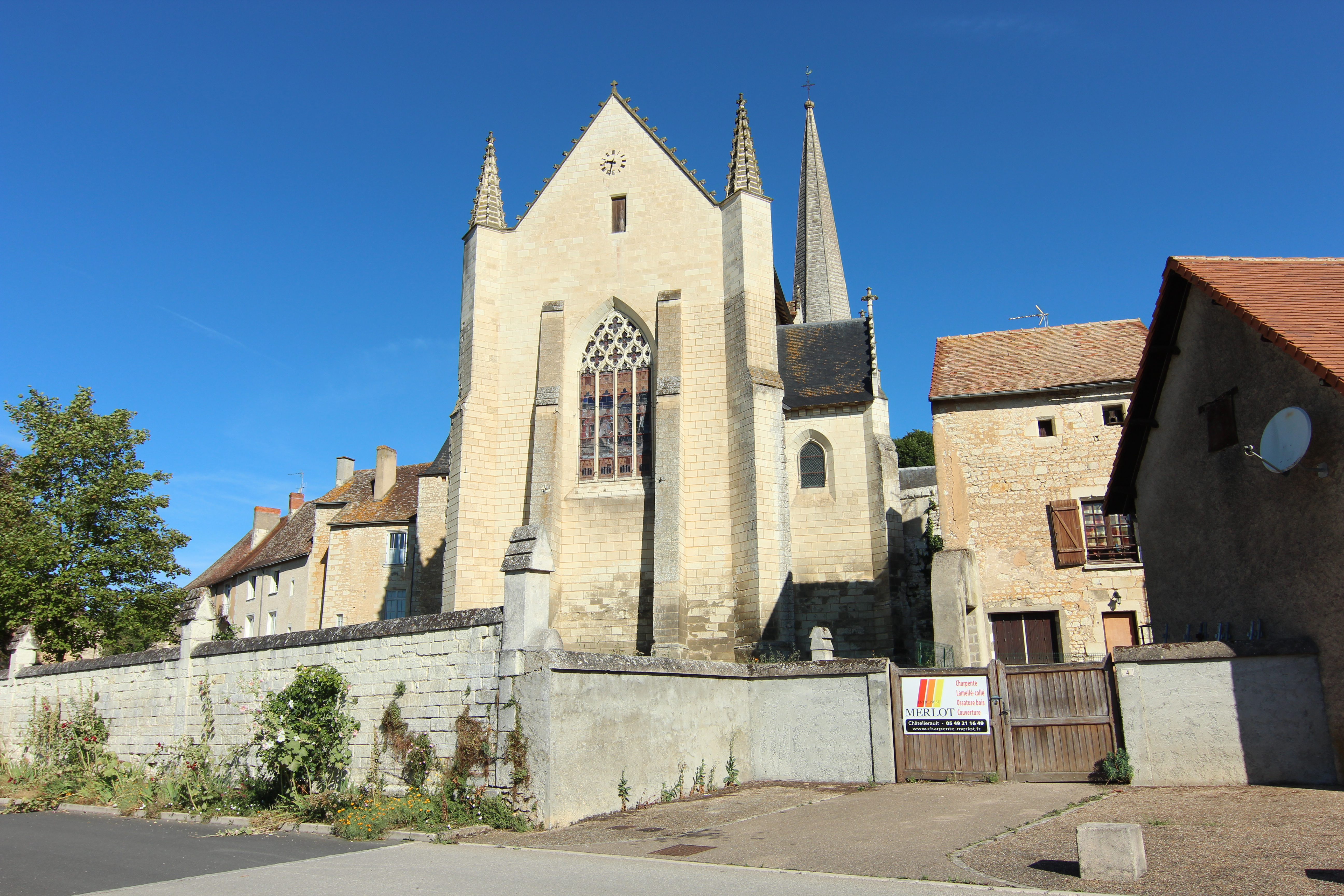 Saint-Antoine church in Saint-Sauveur, Vienne, France. Object location46° 48′ 30.49″ N, 0° 37′ 21.32″ E .